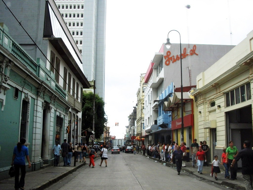 Downtown of San José, Costa Rica